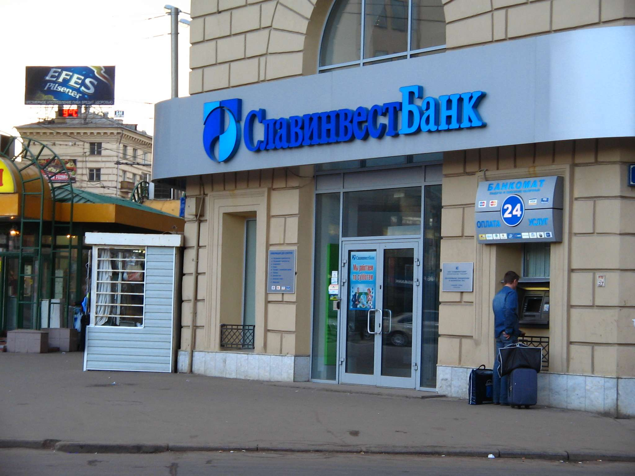 Slavinvestbank office in Moscow, Russia (near Paveletsky Railways Station)